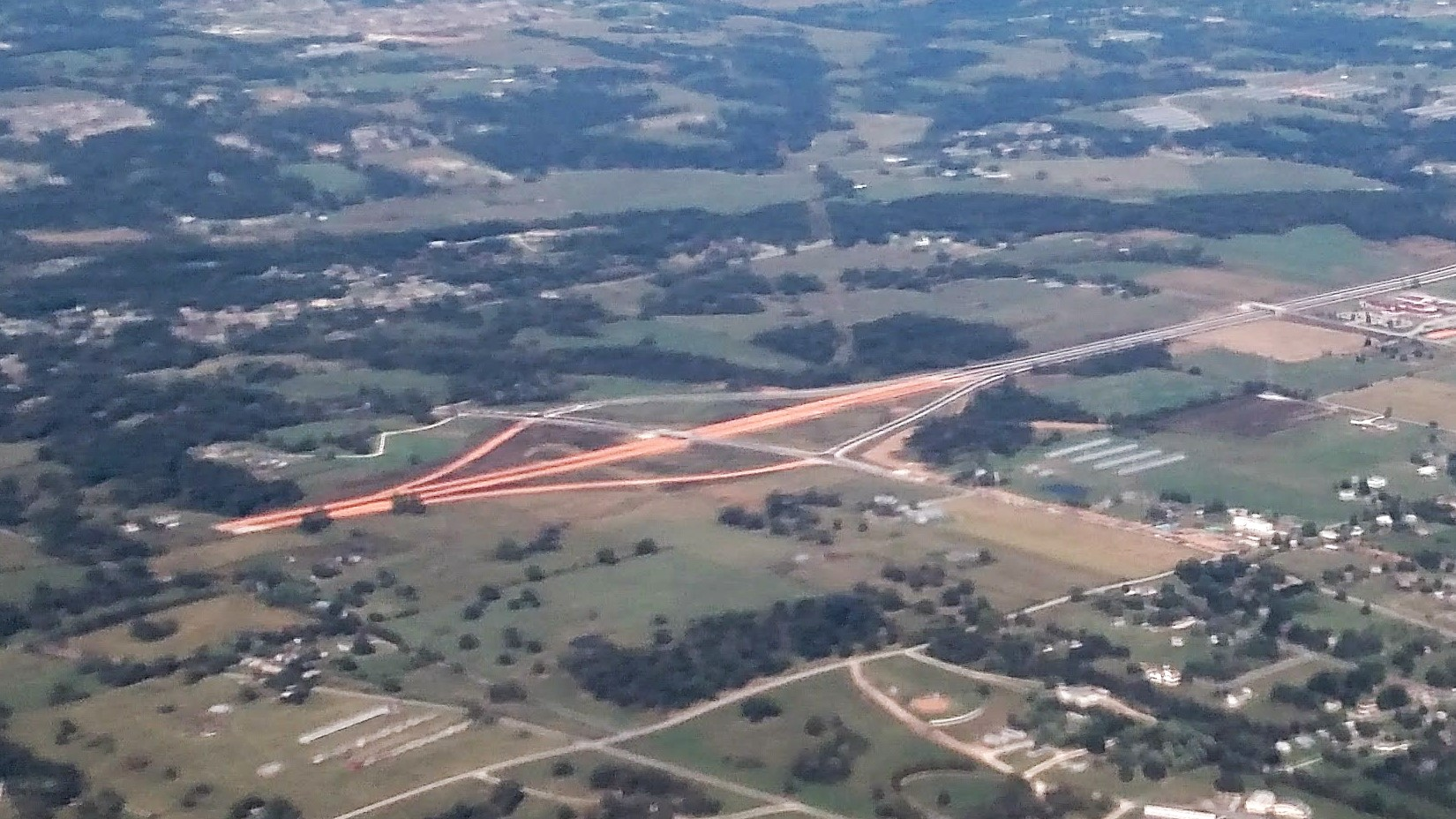 Under construction US 412 bypass meets Highway 112 in western Springdale, AR. Viewed from a commercial flight from XNA